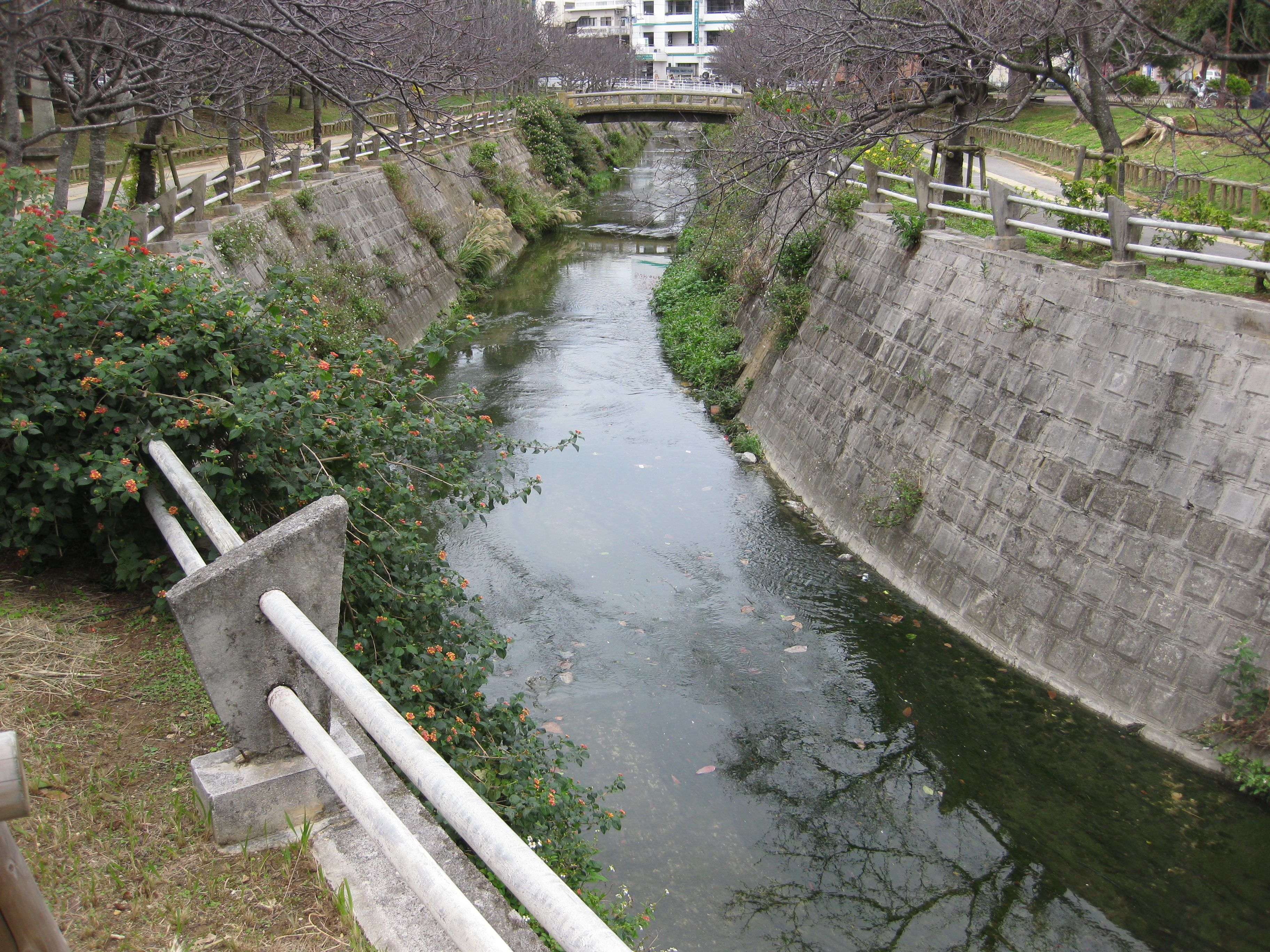 Gābugawa River in Okinawa, Japan